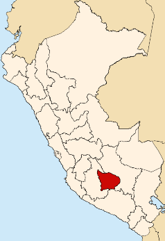 Map of Peru highlighting the Apurímac region